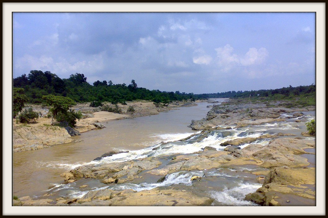 Waterfalls, Damodar river Bhairavi Bhera confluence east India